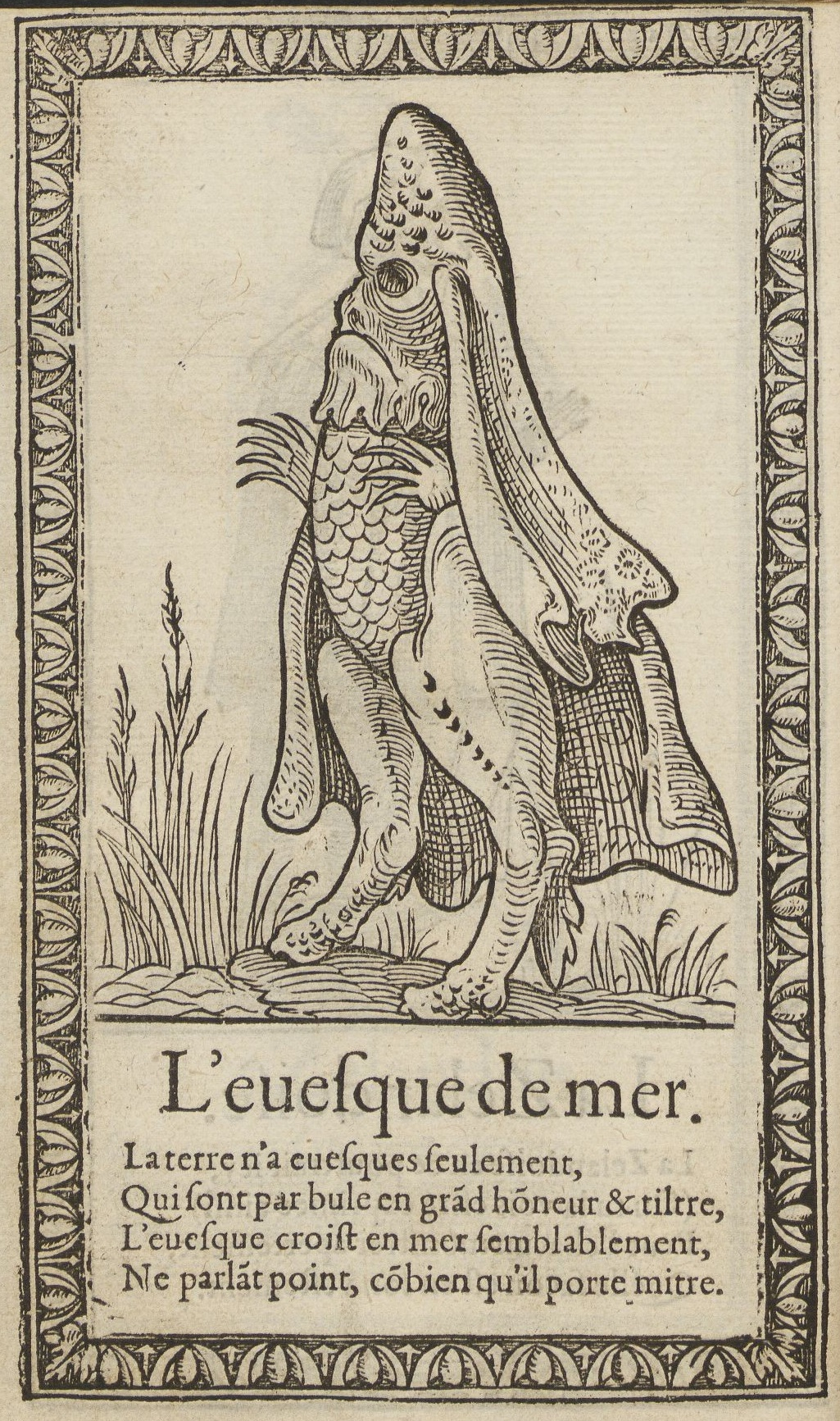 Illustration from Recueil de la diuersité des habits, qui sont de present en vsage, tant es pays d’Europe, Asie, Affrique & isles sauuages, Paris: 1564. Printed and presumably illustrated by Richard Breton, text possibly by François Deserps ("Des Prez"). Digitized copy of complete book. Source: Typ 515.64.73, Houghton Library, Harvard University